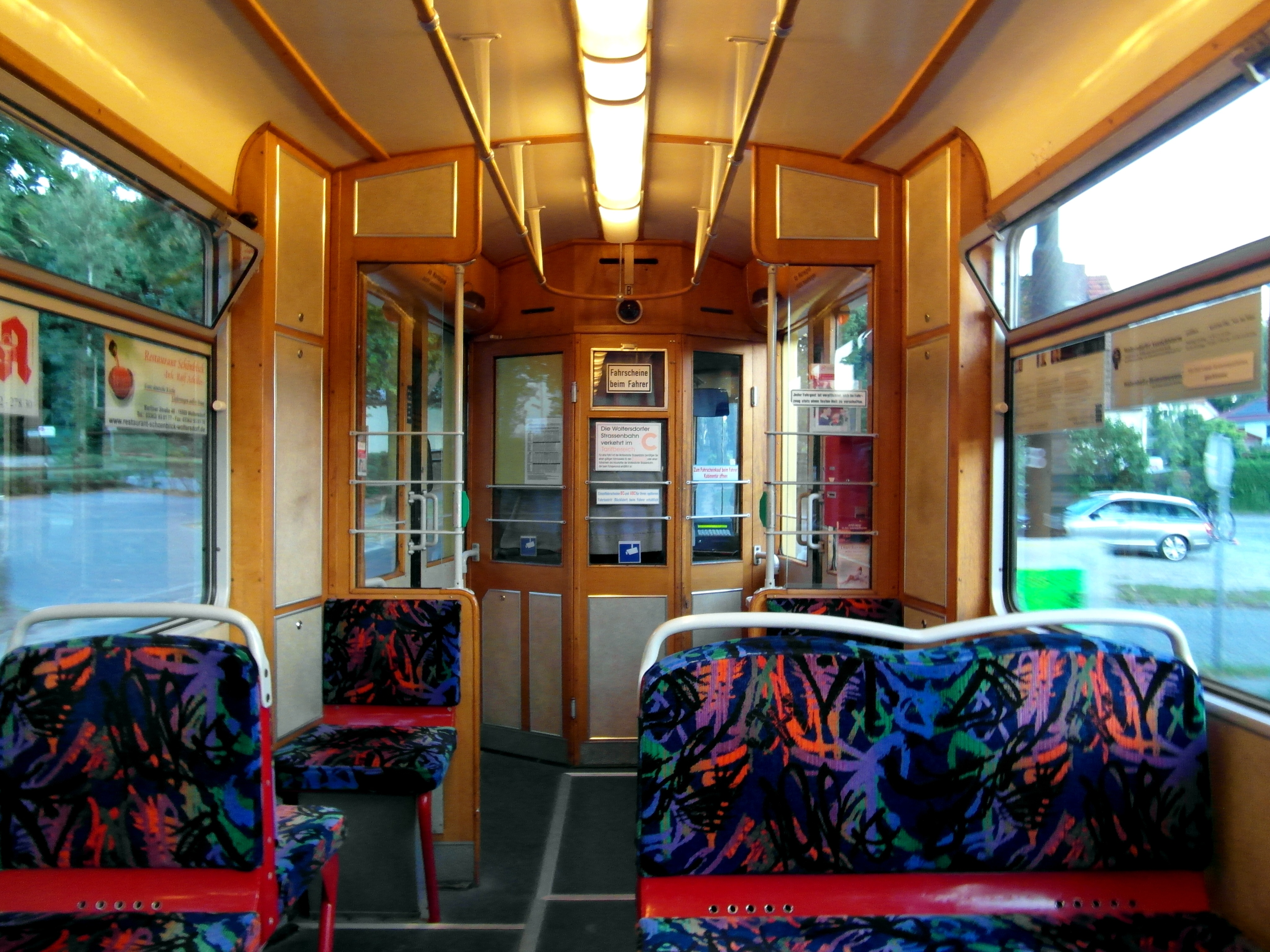 Details of a tram of Woltersdorf's tramway, Woltersdorf, Brandenburg